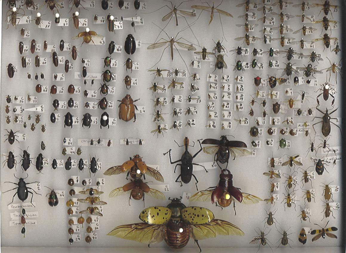 A small amateur insect collection. Collection prepared and photographed by me, User debivort 200.